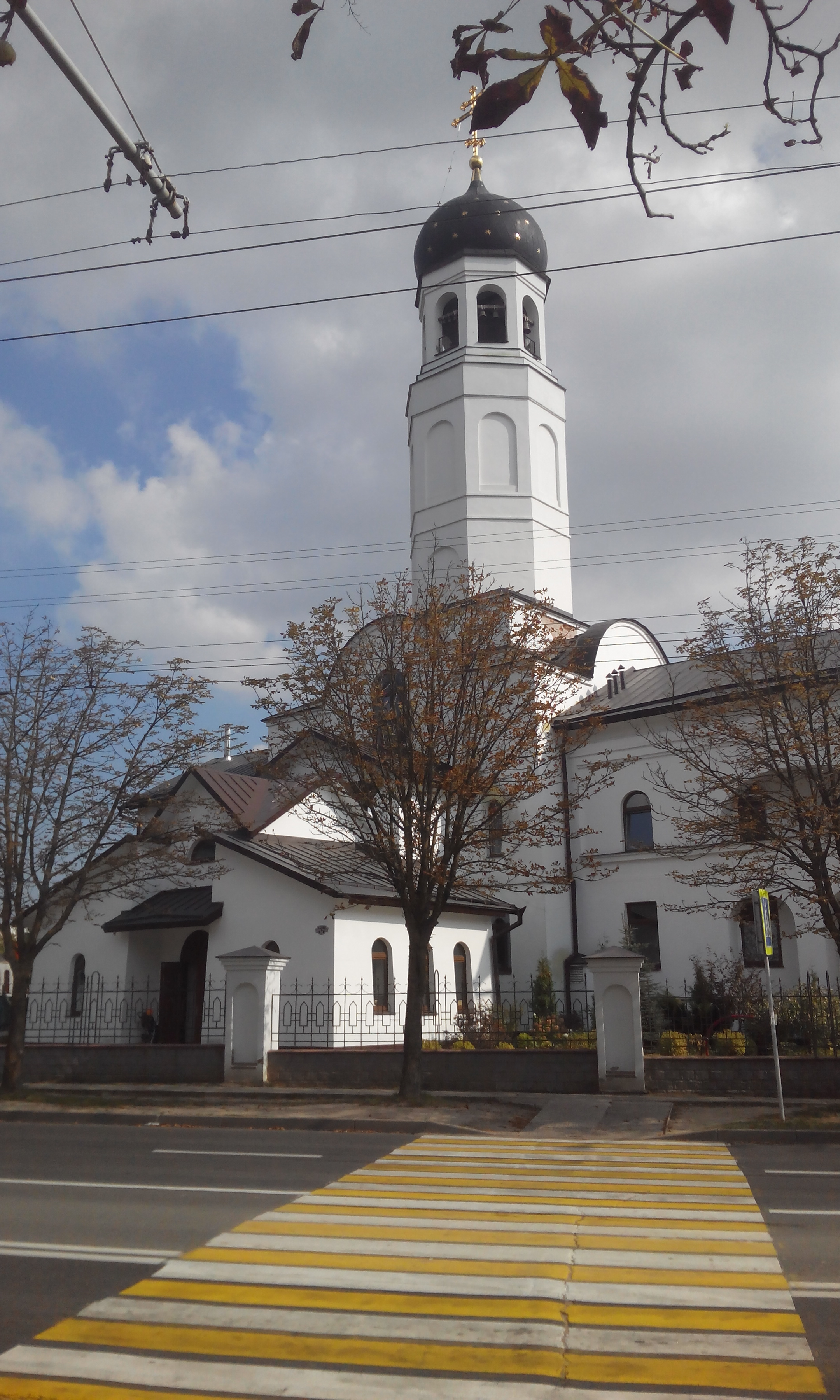 Church of the Transfiguration in Minsk